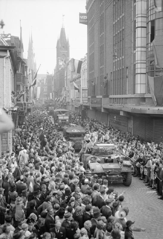 Daimler armoured car and trucks passing through cheering crowds in Eindhoven.